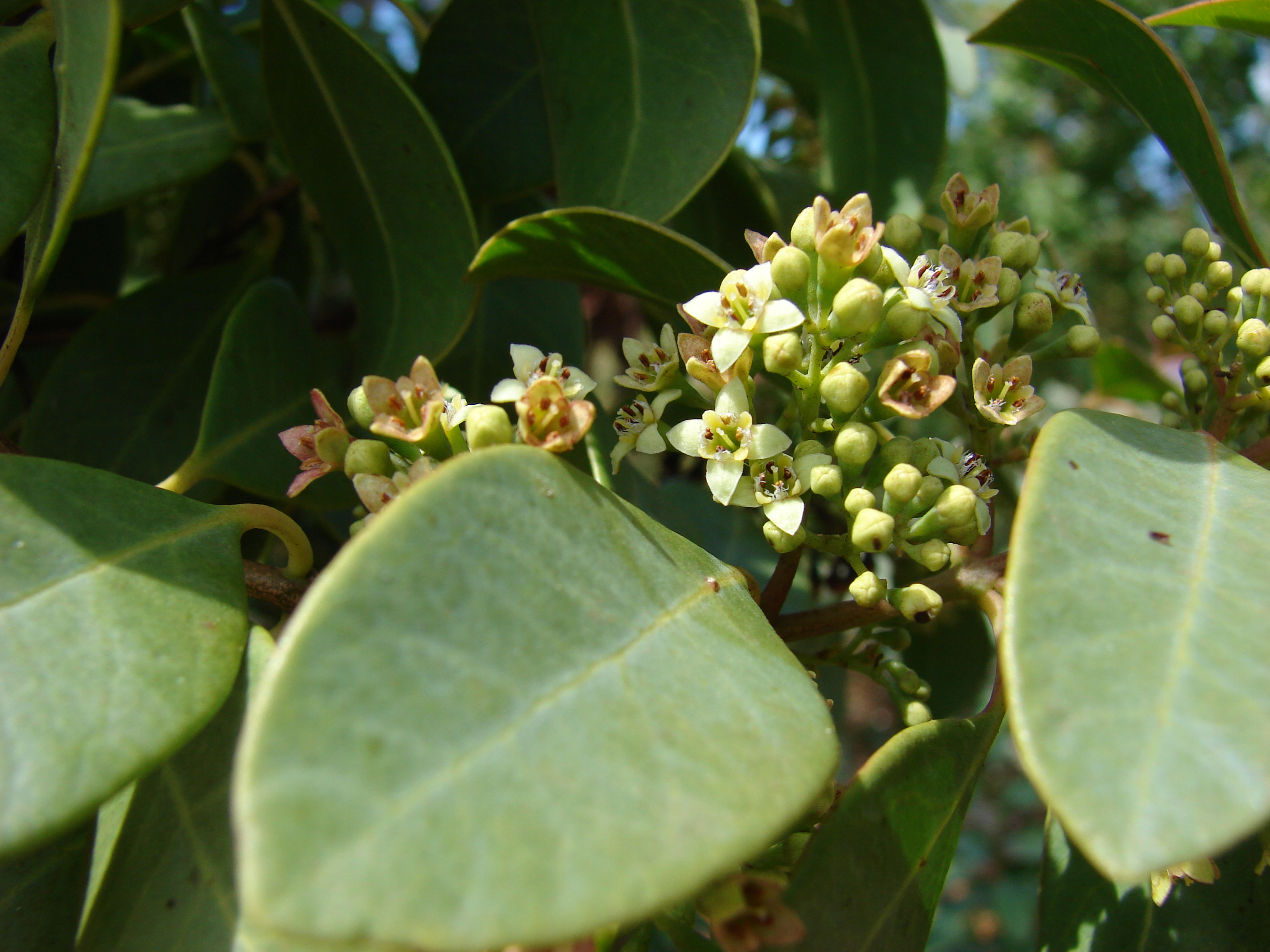 Santalum ellipticum (flowers and leaves). Location: Maui, Kanaha Beach